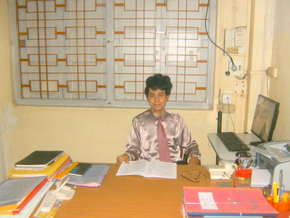 While working at SVIMS (International), Wadala, Mumbai